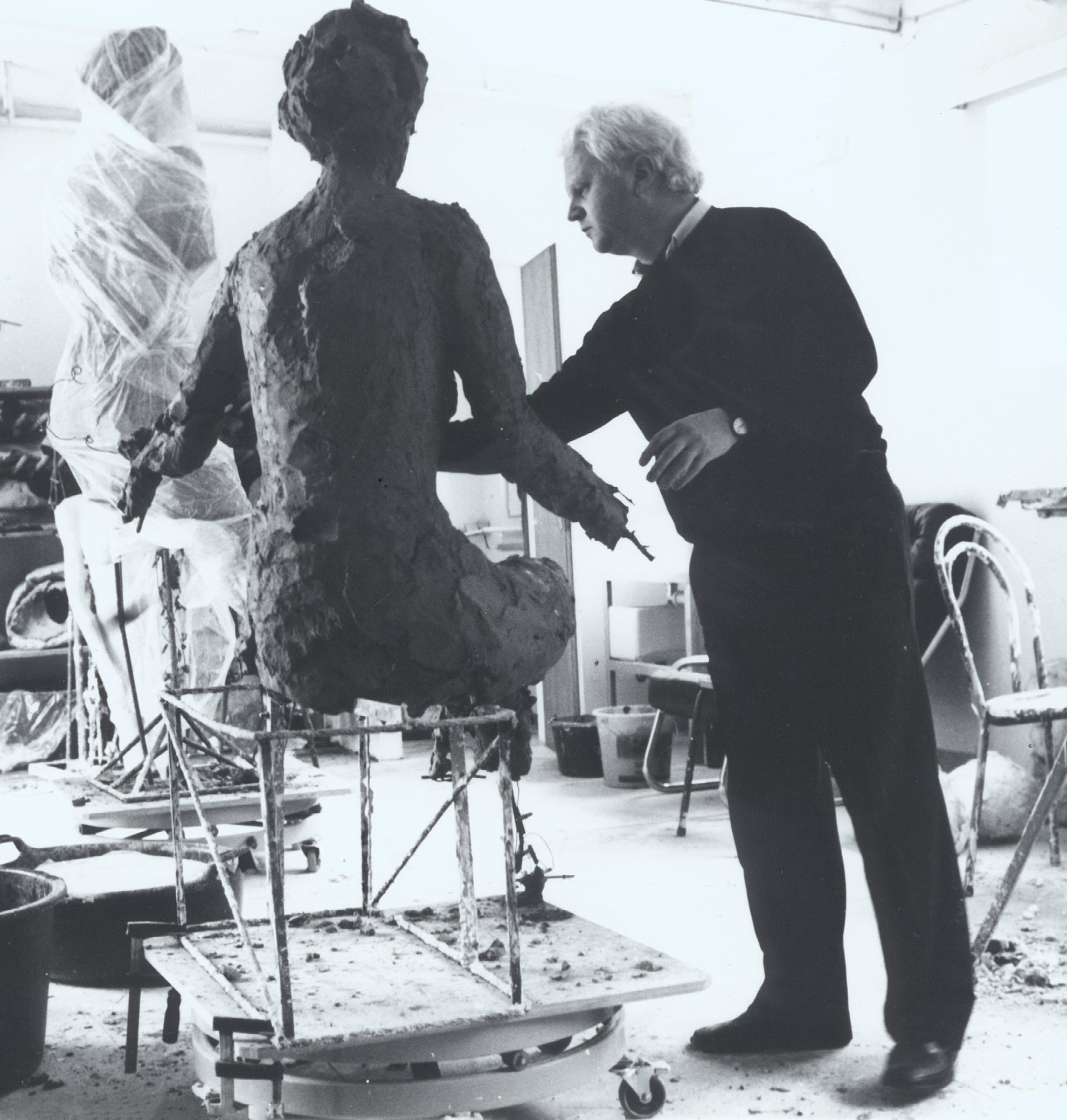 The picture shows Hans Ortner working on his sculptures